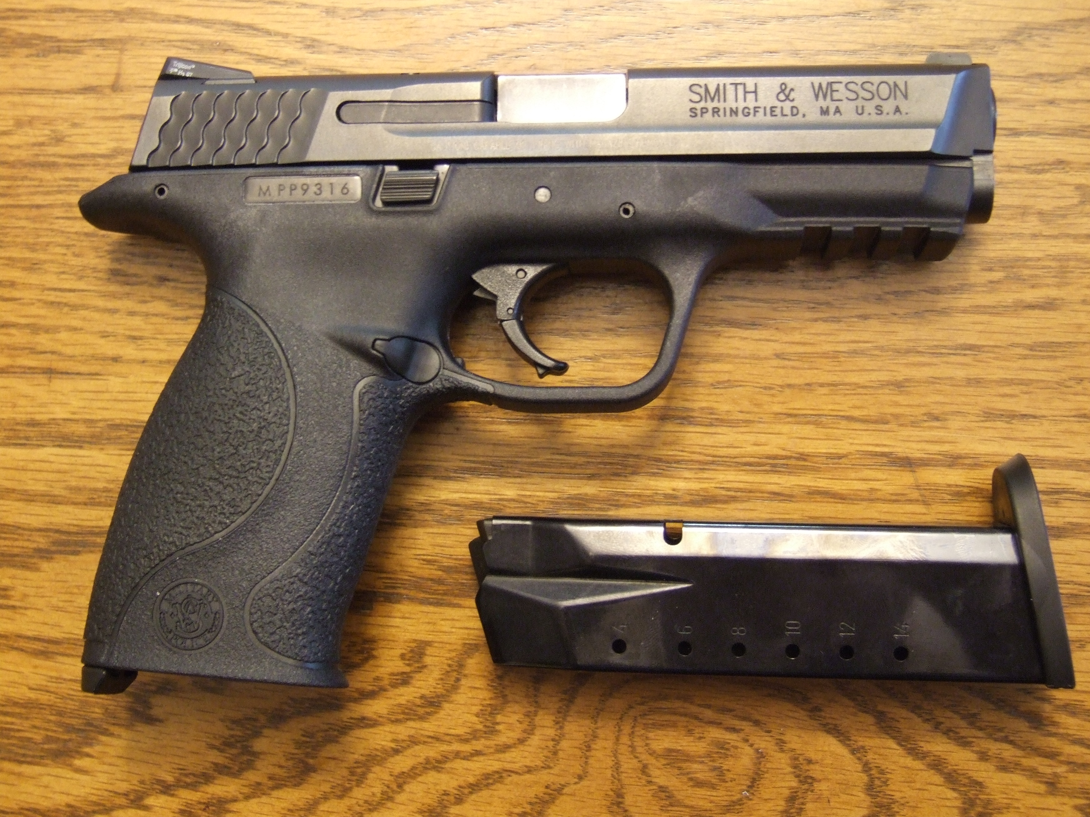 A Smith & Wesson Military & Police handgun chambered in .40 S&W.